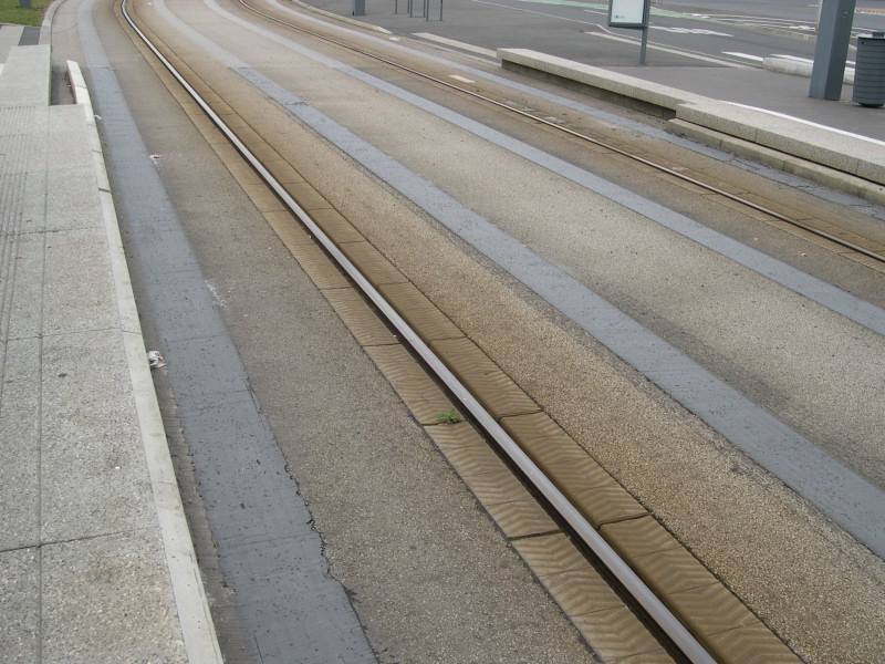 A rail of the pneus tramway at Caen, France